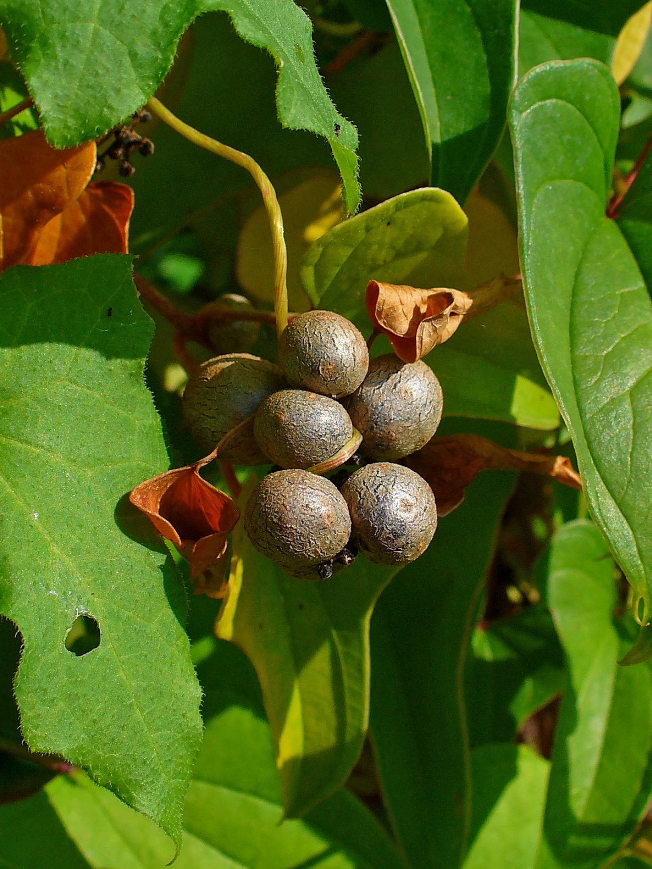 Dioscorea polystachya, Dioscoreaceae, Chinese yam, fruits; Botanical Garden KIT, Karlsruhe, Germany. The root is used in homeopathy as remedy: Dioscorea polystachya